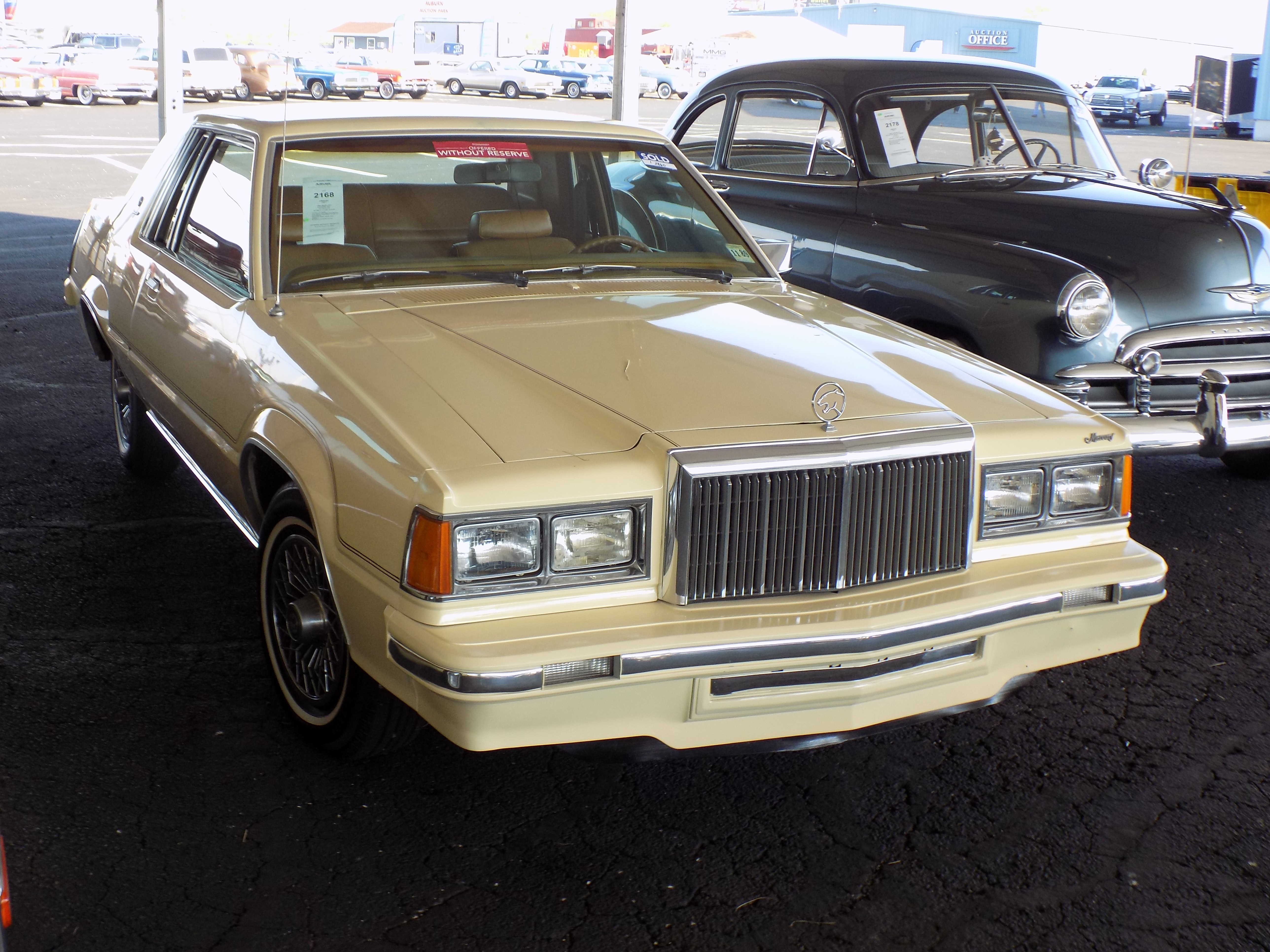 Auburn Spring RM Sotheby's Auctions America Auburn Auction Park Auburn, Indiana May 2017 Click here for more car pictures at my Flickr site. Or here for my Car Crazy Tumblr site. Or on Twitter @DVS1mn.